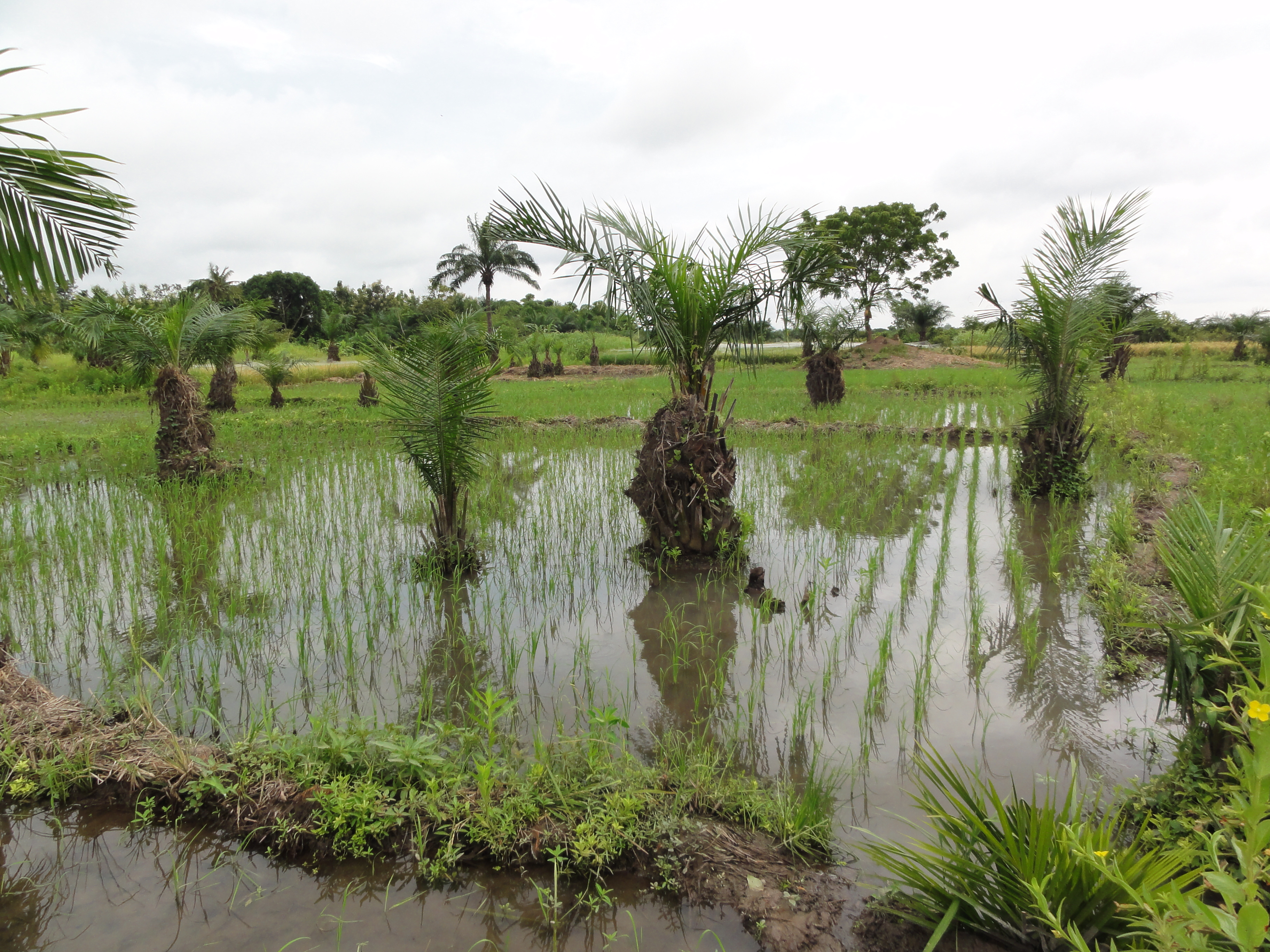 Rice cultivation in Benin